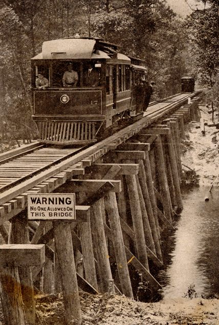 Postcard showing tram going over wooden bridge crossing the Bogue Falaya River near Covington, Louisiana. This was part of the interurban tram line formerly connecting the towns of Covington, Abita Springs, and Mandeville, Louisiana.